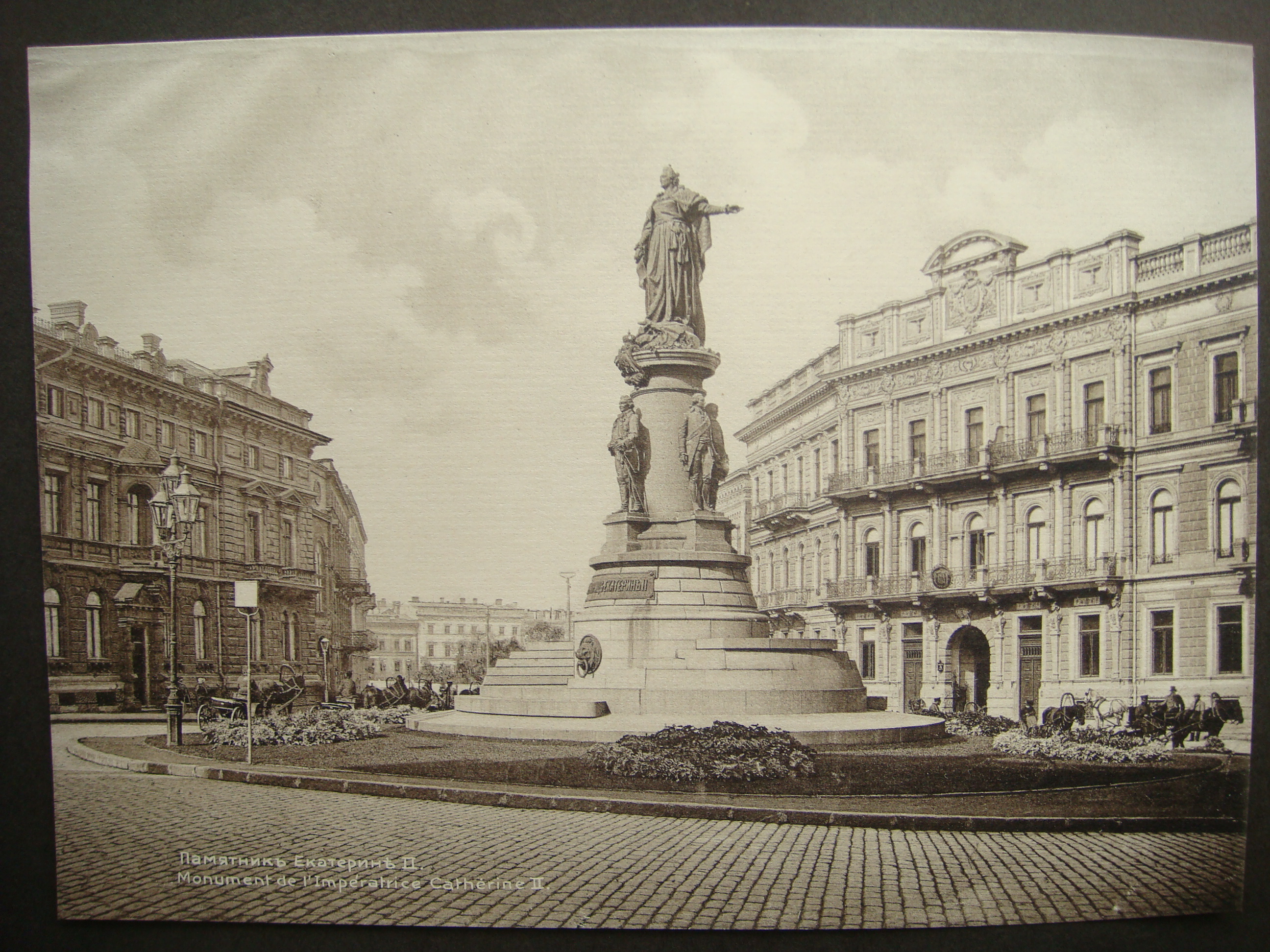 This is photo view of Odessa from Souvenir Photo Album published in Odessa circa early XX century.